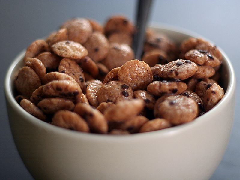 Cookie Crisp cereal from the side